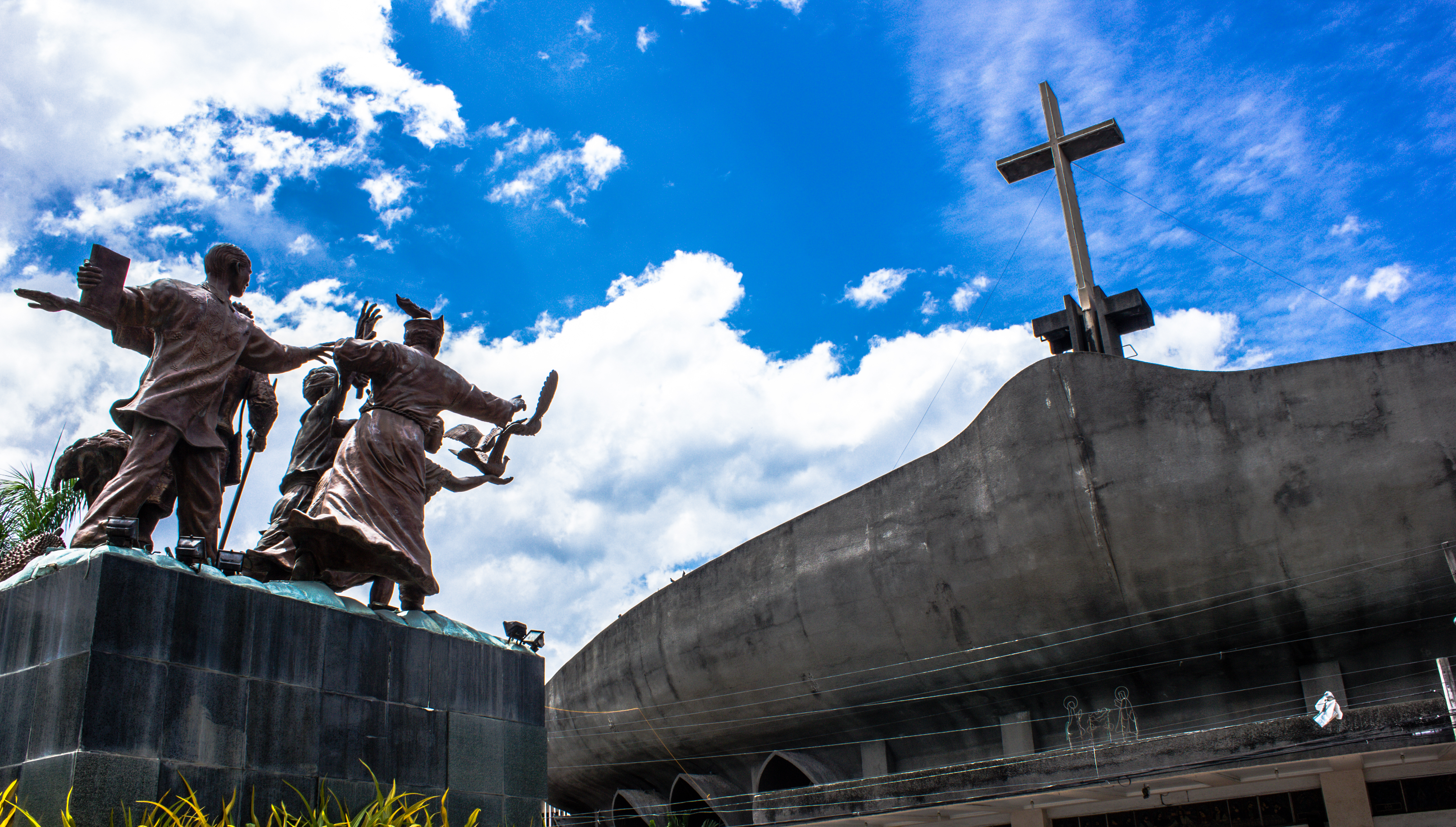 the Commemorative monument of Peace and unity fronting San Pedro Cathedral in Davao City, Philippines